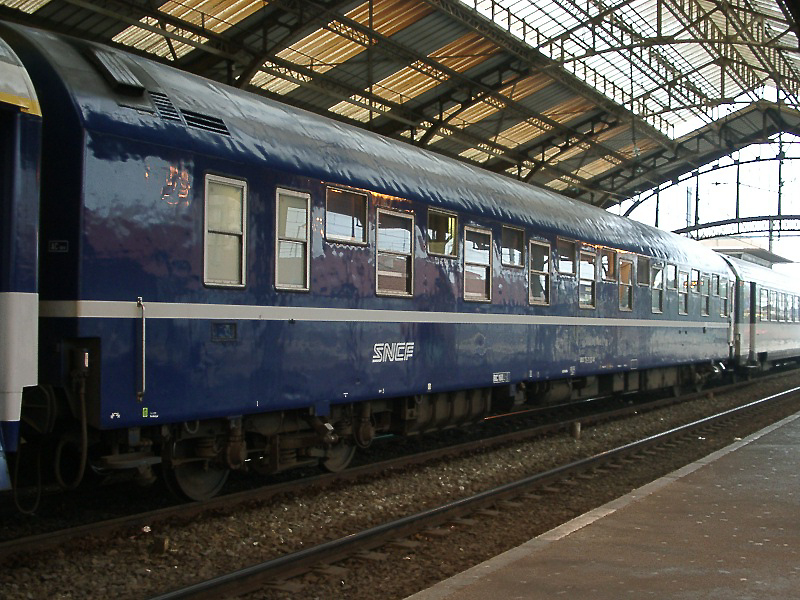 Voiture T2 in the train from Paris Austerlitz to Portbou, Perpignan Sta., France.